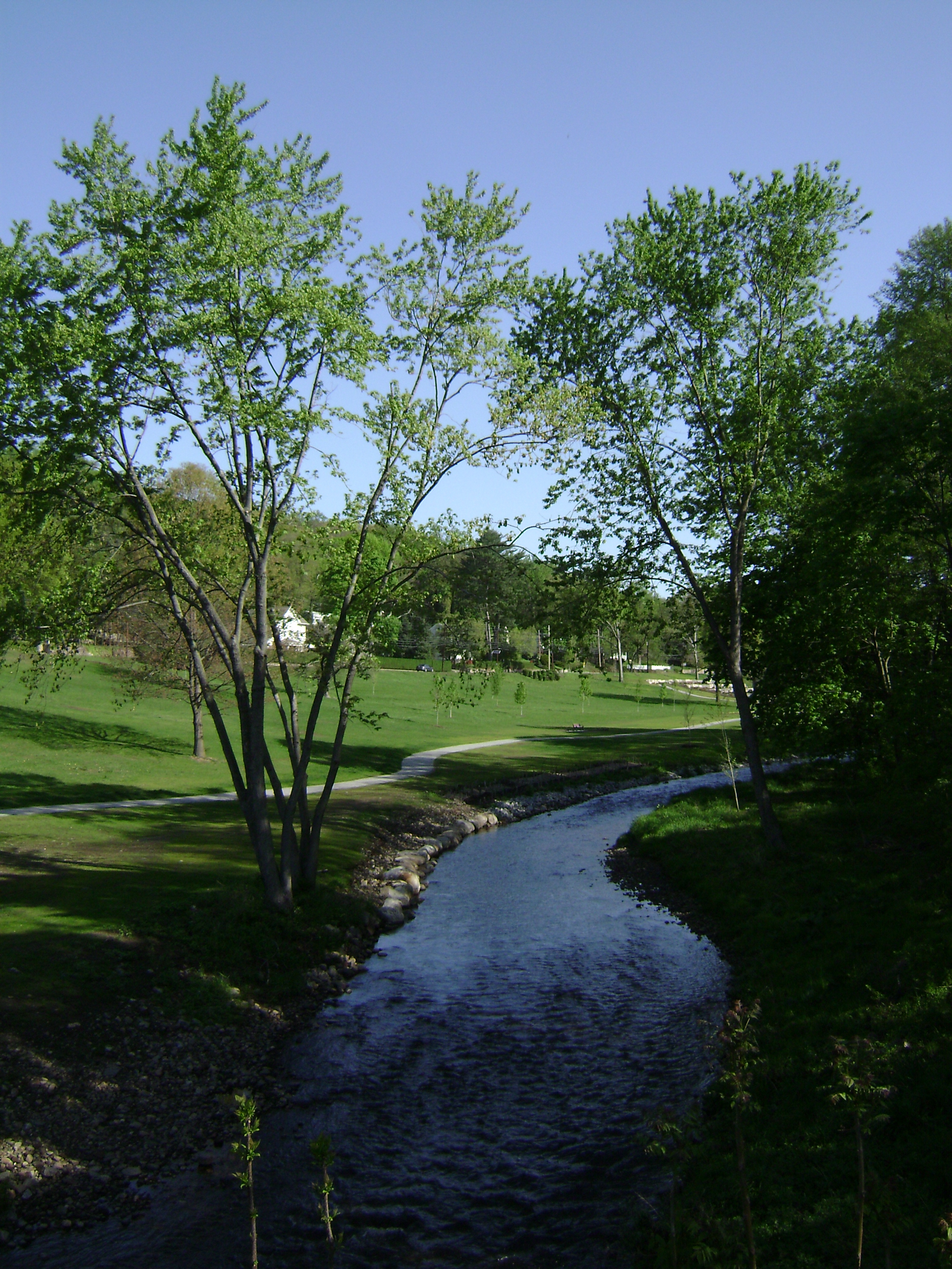 Photo of Goffle Brook facing north from Diamond Bridge Ave in Hawthorne, New Jersey. A county funded bank stabilization project had been completed approximately six months prior to when this image was taken.